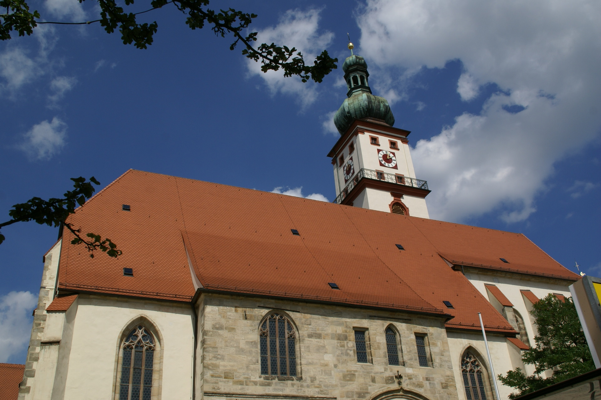 St. Mary Church in Sulzbach-Rosenberg (Germany)